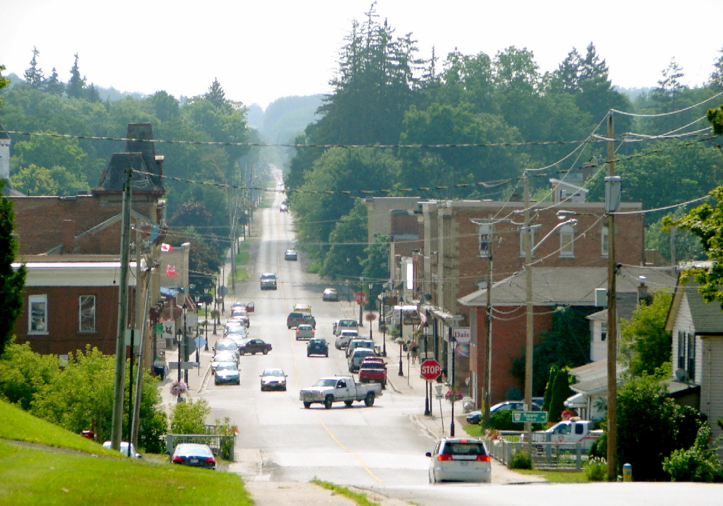 Millbrook in Cavan-Monaghan Township, Ontario, Canada